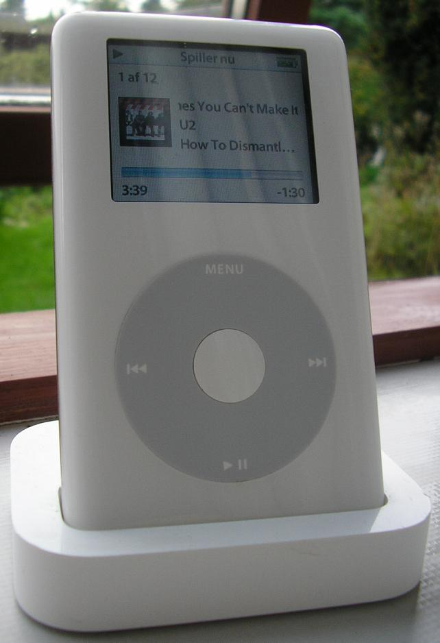 Summary Photo of a fourth-generation Apple iPod Photo in dock.